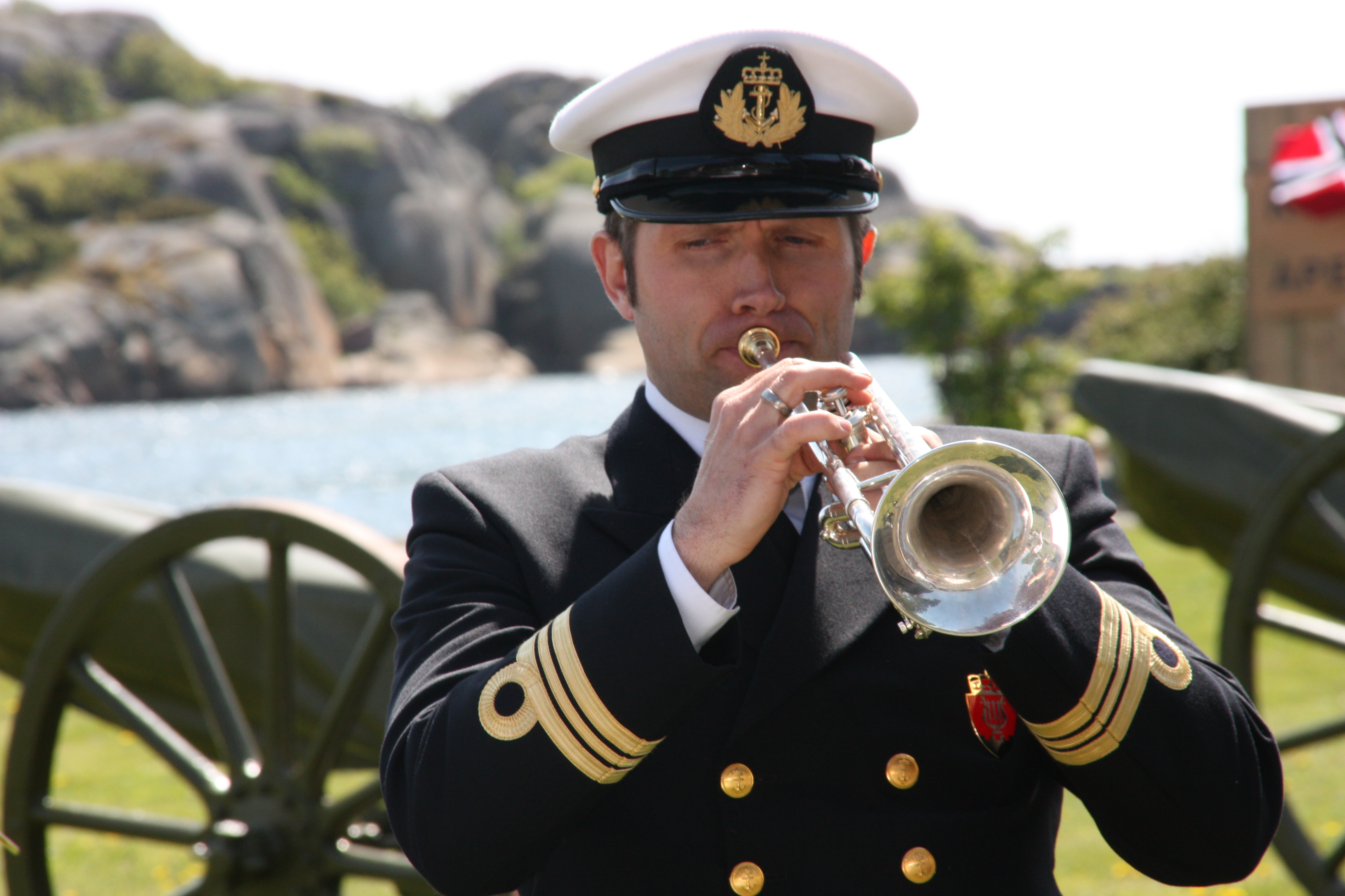 Kongelige Norske Marines Musikkorps brass ensemble in Stavern, Norway at the opening of the art installation "Fredsskipene" by Päivi Laakso, may 2010.